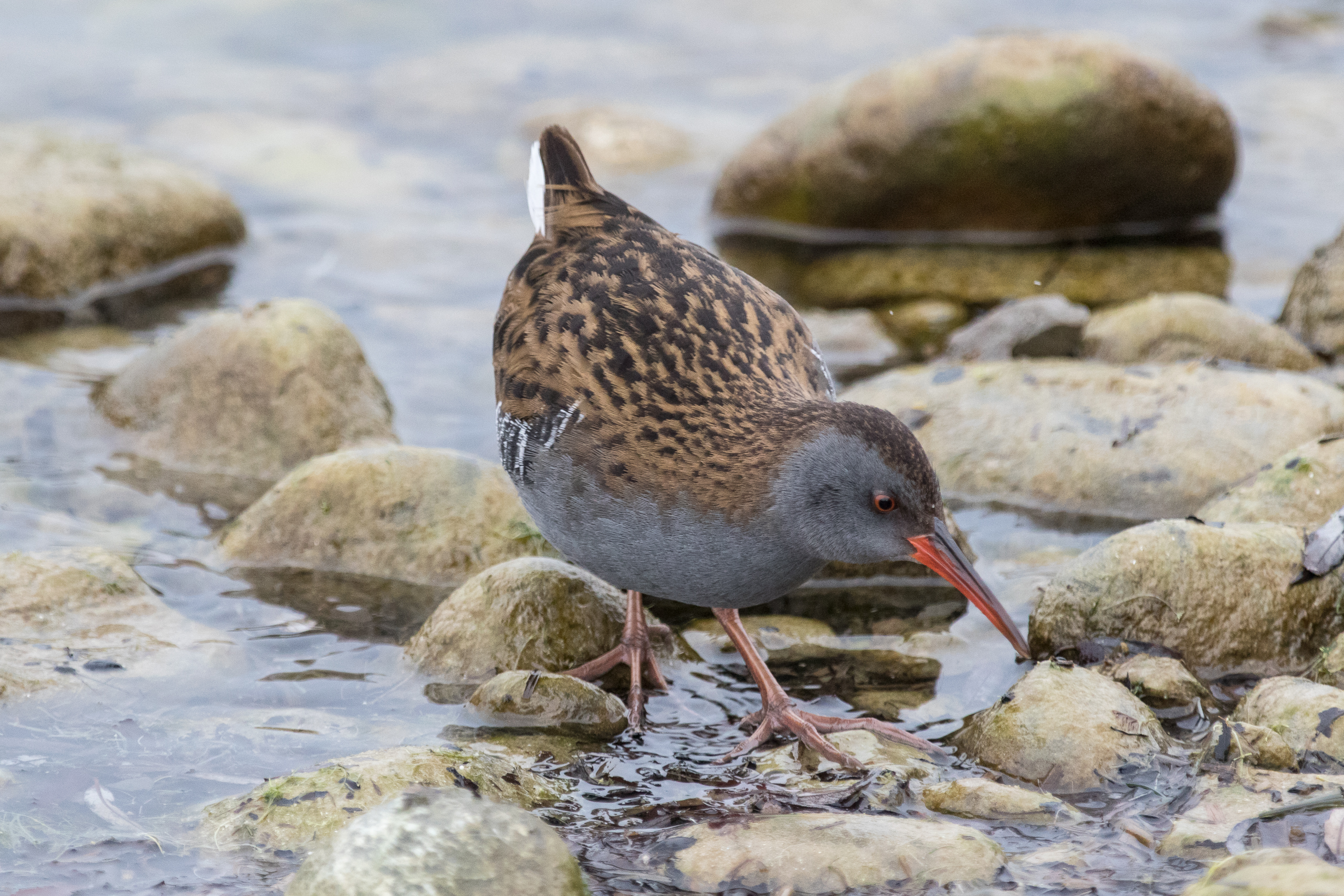 Water rail (Rallus aquaticus) at Lake Constance